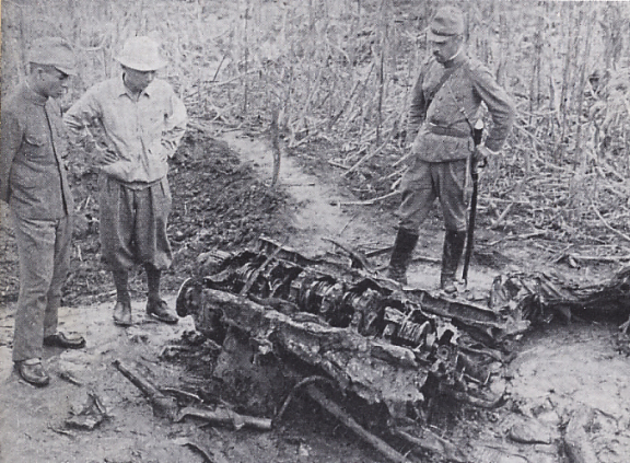 Battle of Lake Khasan-Wreck of Soviet aircraft shot down over Korea